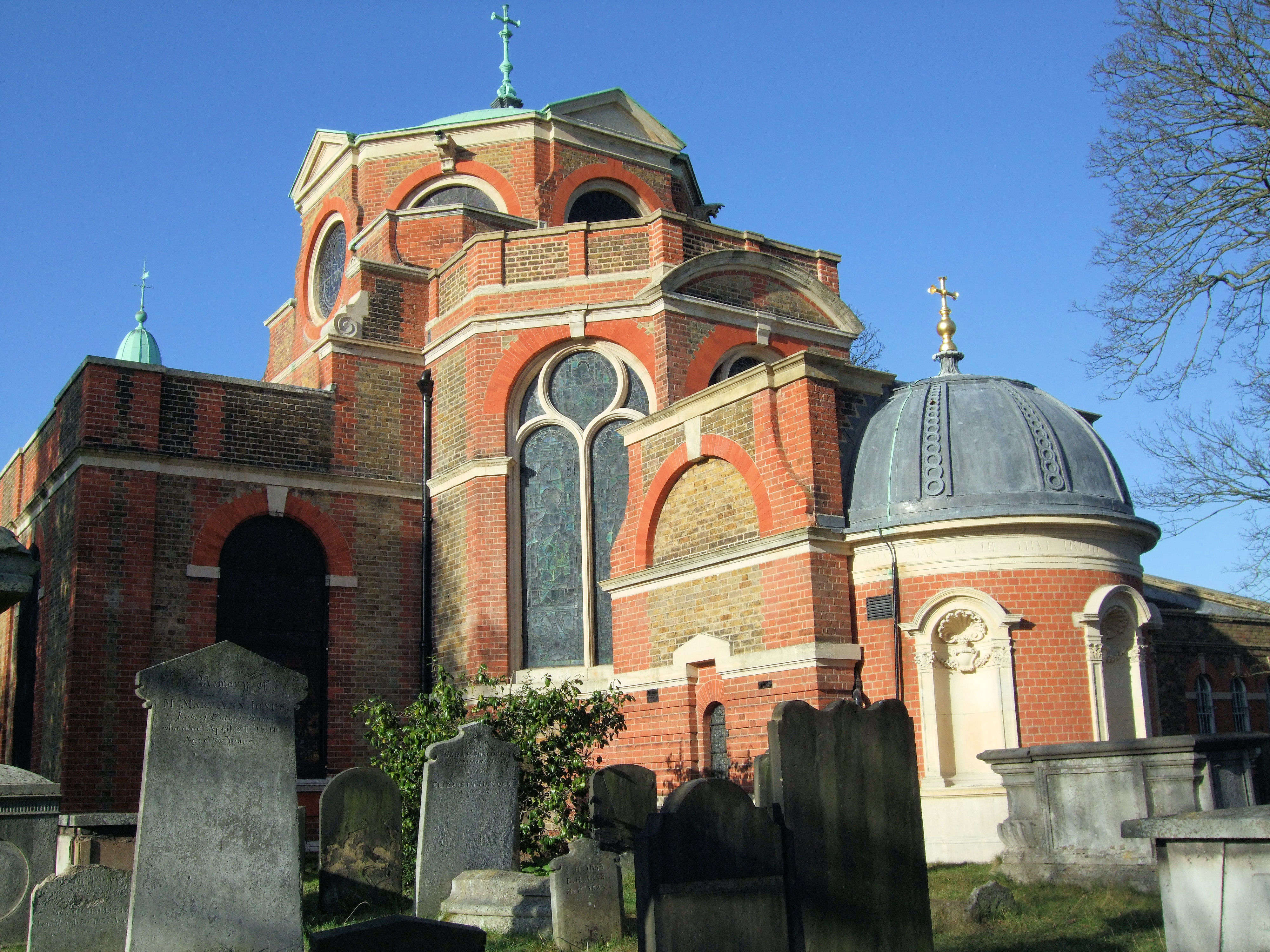 Originally built in 1714, on land given by Queen Anne as a church within the parish of Kingston.